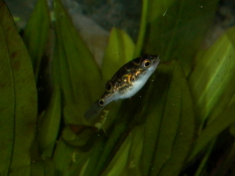 Tetraodon biocellatus (despite the original name of the photo Carinotetraodon travancoricus)